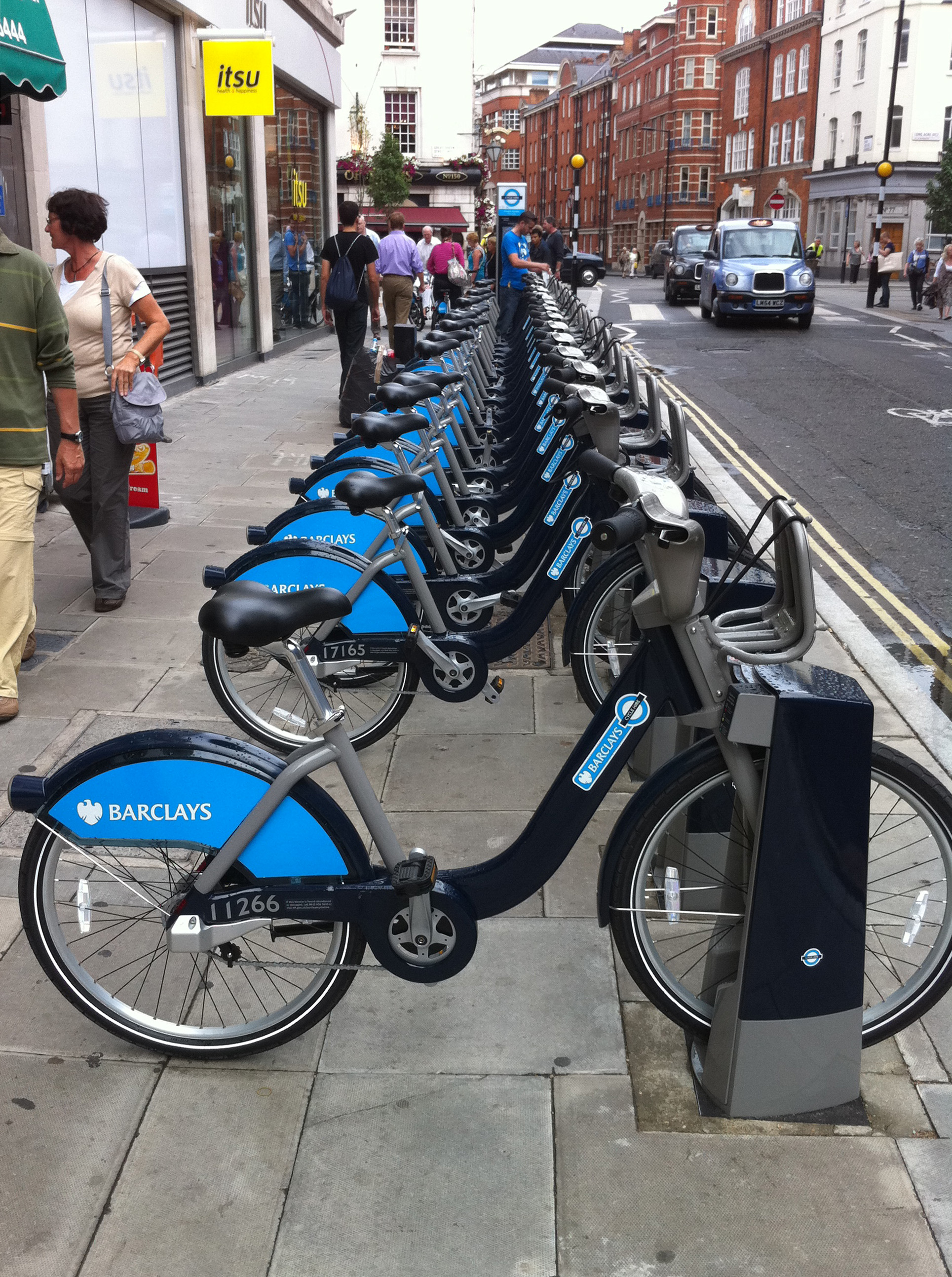 Barclays Cycle Hire Drury Lane Docking Station